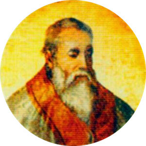 Portait of Pope Urban V in the Basilica of Saint Paul Outside the Walls, Rome